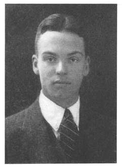 Robert Maynard Hutchins, taken from the Yale University yearbook in 1921.